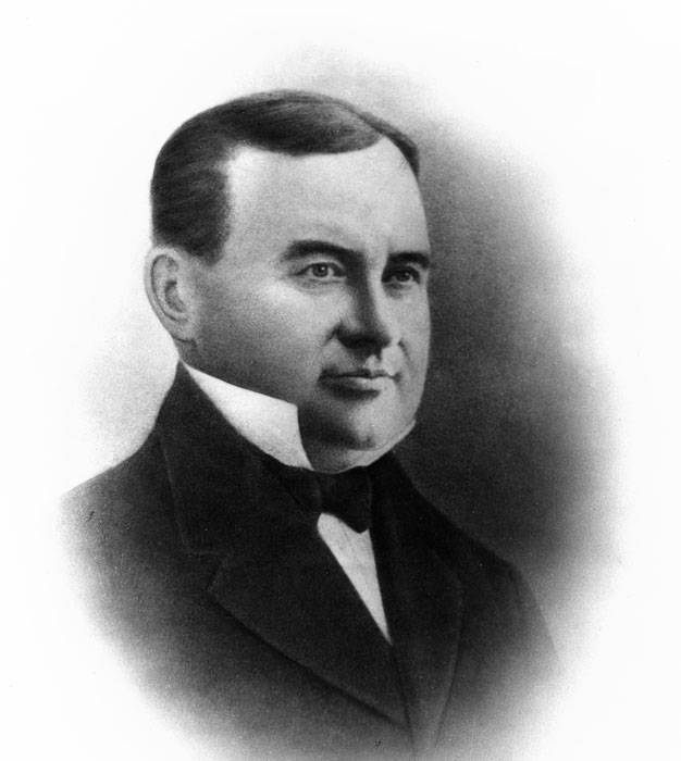 Photo of Stephen Selwyn Harding, governor of the territory of Utah from 1862-1863.